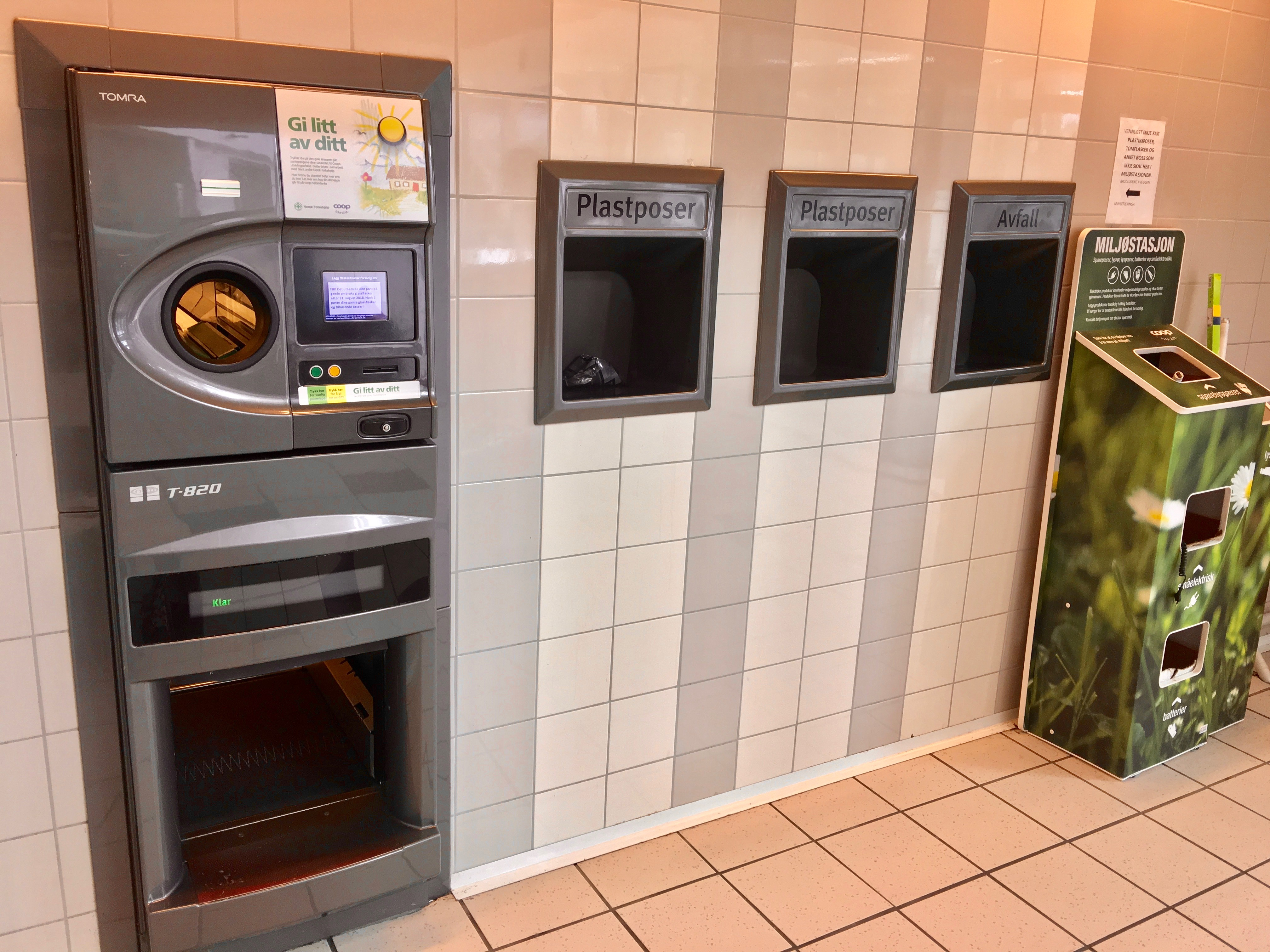 Extra Coop Supermarket, Amfi Shopping Mall in Osøyro, Hordaland, Norway. 2018-03-22. Bottle reverse vending machine, etc. (Miljøstasjon med panteautomat for retur av tomflasker, retur av batterier, lyspærer etc.)